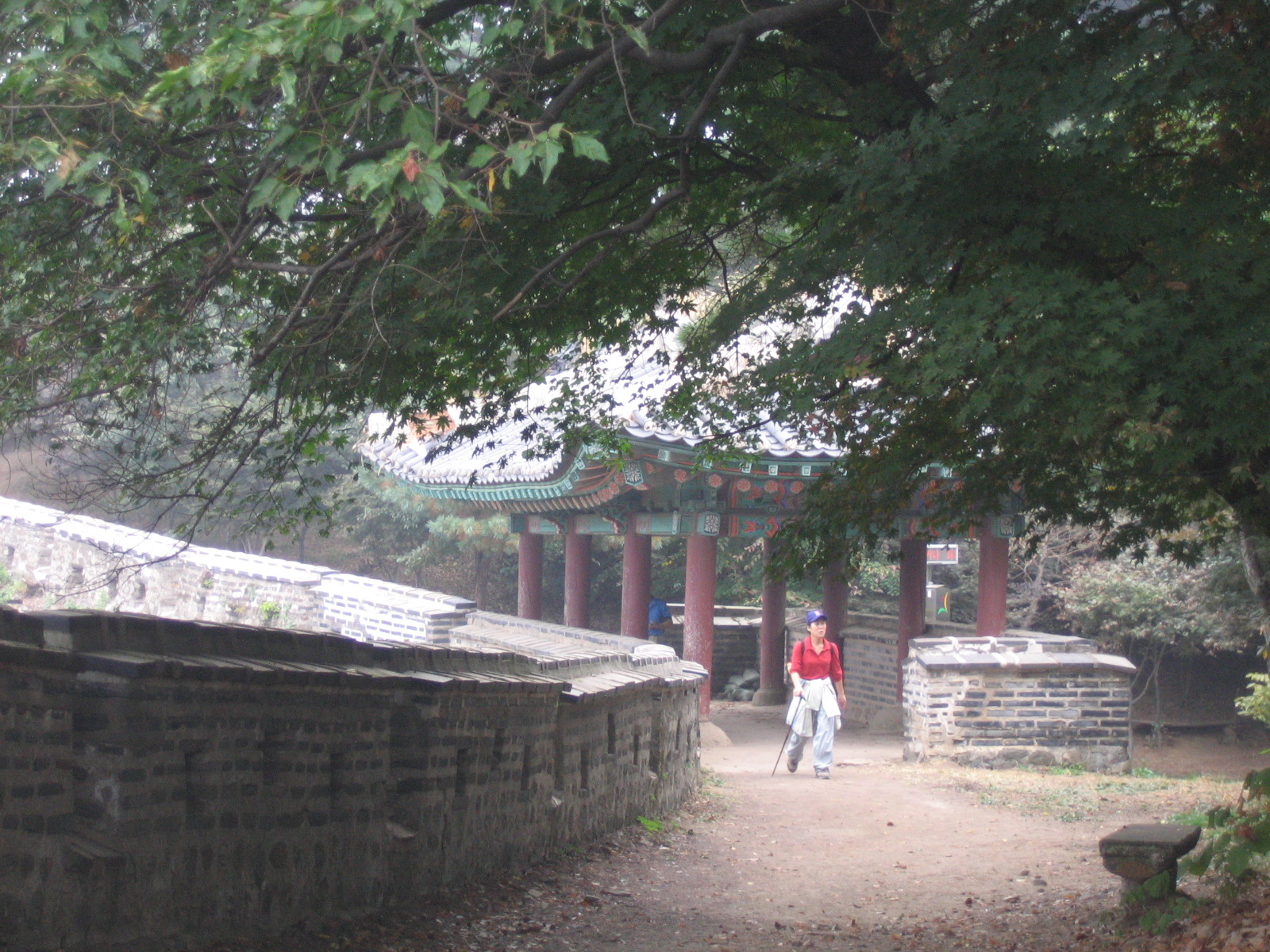 West Gate Namhan_Moutain_Castle